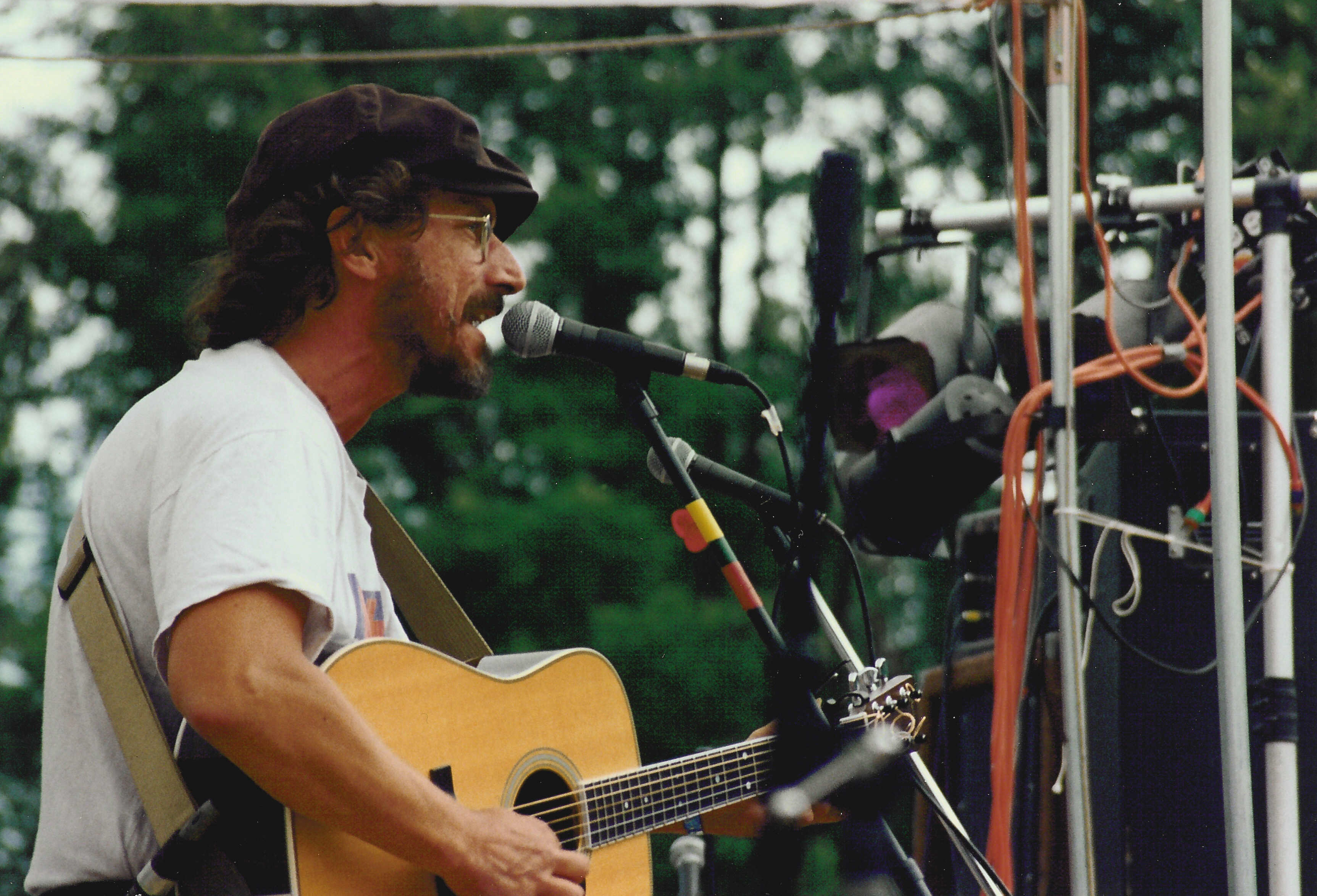 Seattle songwriter Jim Page performs at Starlight Mountain Festival.